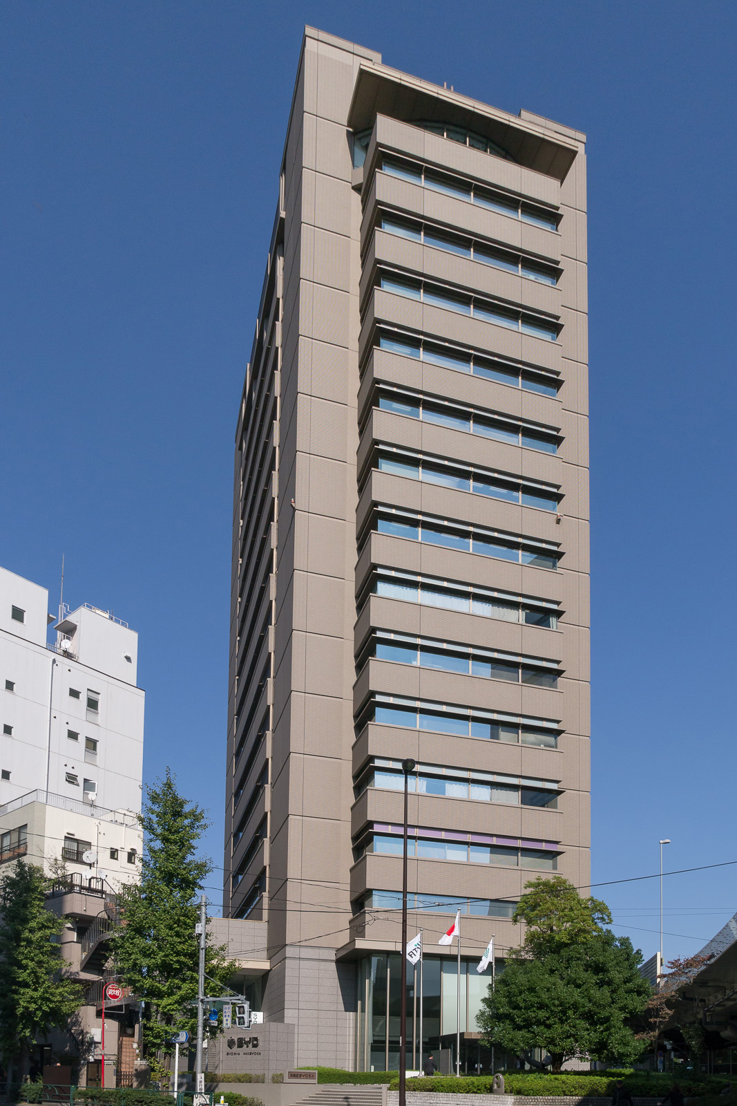 SYD Building, Sendagaya Shibuya-ku, Tokyo